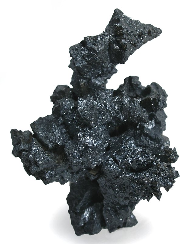 Acanthite, Argentite Locality: Imiter Mine, Boumalne-Dadès, Ouarzazate Province, Souss-Massa-Draâ Region, Morocco (Locality at ) Size: small cabinet, 6.1 x 4.6 x 4.3 cm Acanthite ps. Argentite This specimen of acathite after argentite features a series of stacked, octahedral, splendent, jet-black crystals, to 1.8 cm in length. the crystals literally leap out from a matrix of calcite, silver ore, and massive acanthite (few specimens ahve any matrix, here). This new find has lustre - bright sparkling lustre that is hard to convey in photos and quite another world from the appearance of previous finds here. I particularly like the angled group at the top of the specimen, which features a birdlike crystal cluster of 2.4 cm atop. This is a superb, elegant acanthite by any standard, quite different from Mexican and Chinese and German acanthites we might have seen previously.